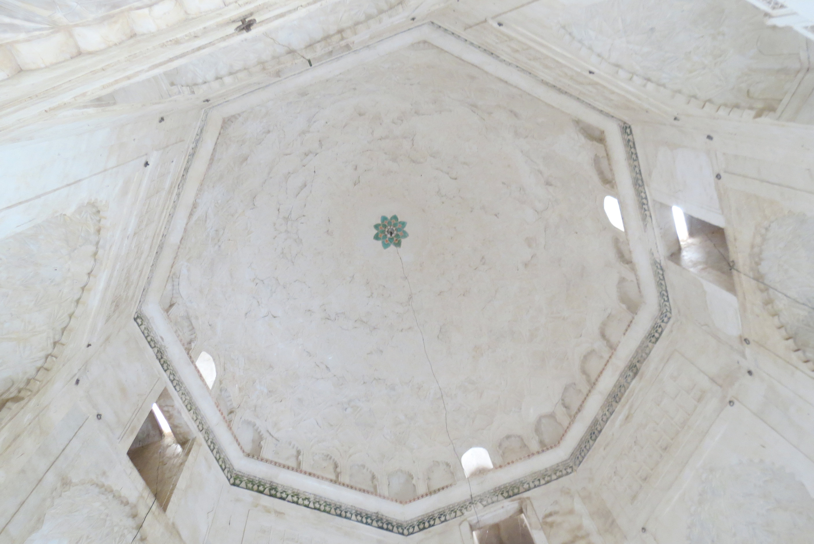 Interior dome of the mausoleum of Rabia-ud-Daurani. The mausoleum is also known as Bibi-Ka-Maqbara.